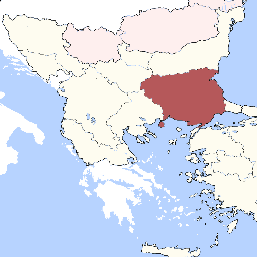 Adrianople Eyalet in 1850s. Tributary states of the Ottoman Empire are shown in pink. According to the information of this map: [1]